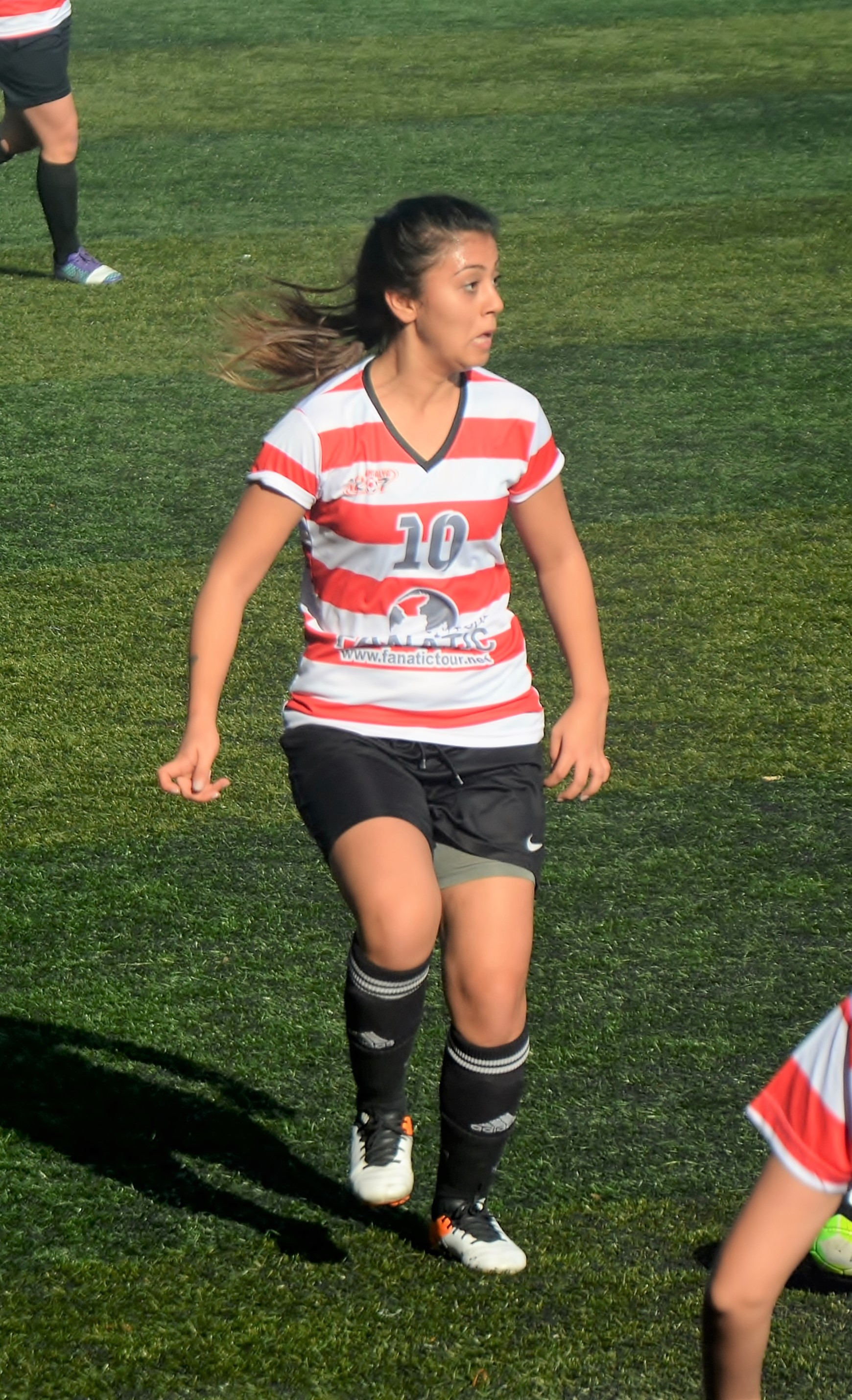 Ayşenur Büyükciğer playing for 1207 Antalya Döşemealtı Belediyespor in the away match against Kirçburnu Spor in the 2017-18 Turkish Women's First League.